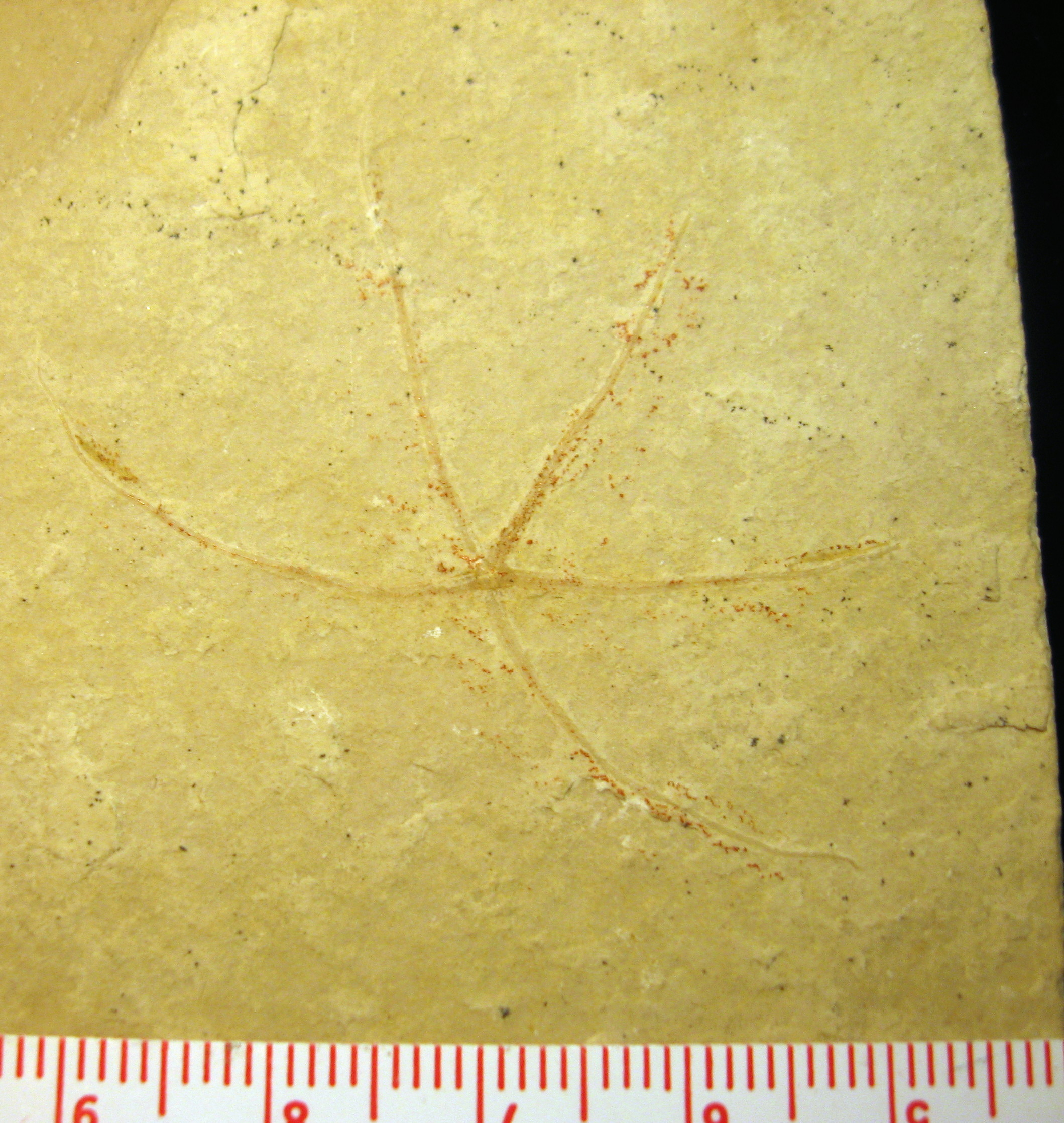 A specimen of the extinct Ophiuridae species Geocoma carinata. ~5cm across ~125 million years old, Jurassic, Eichstatt, Bayern, Germany